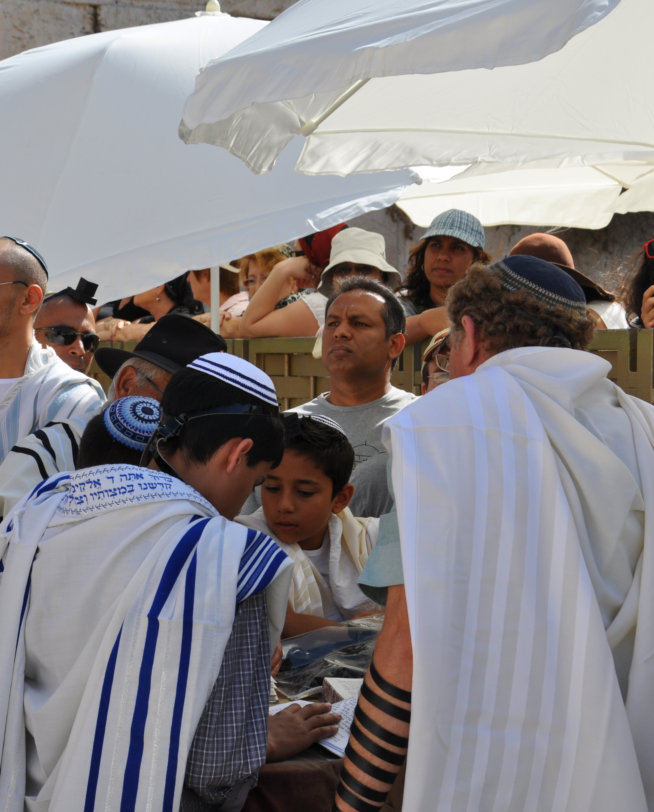 Bar Mitzvah at the Western Wall